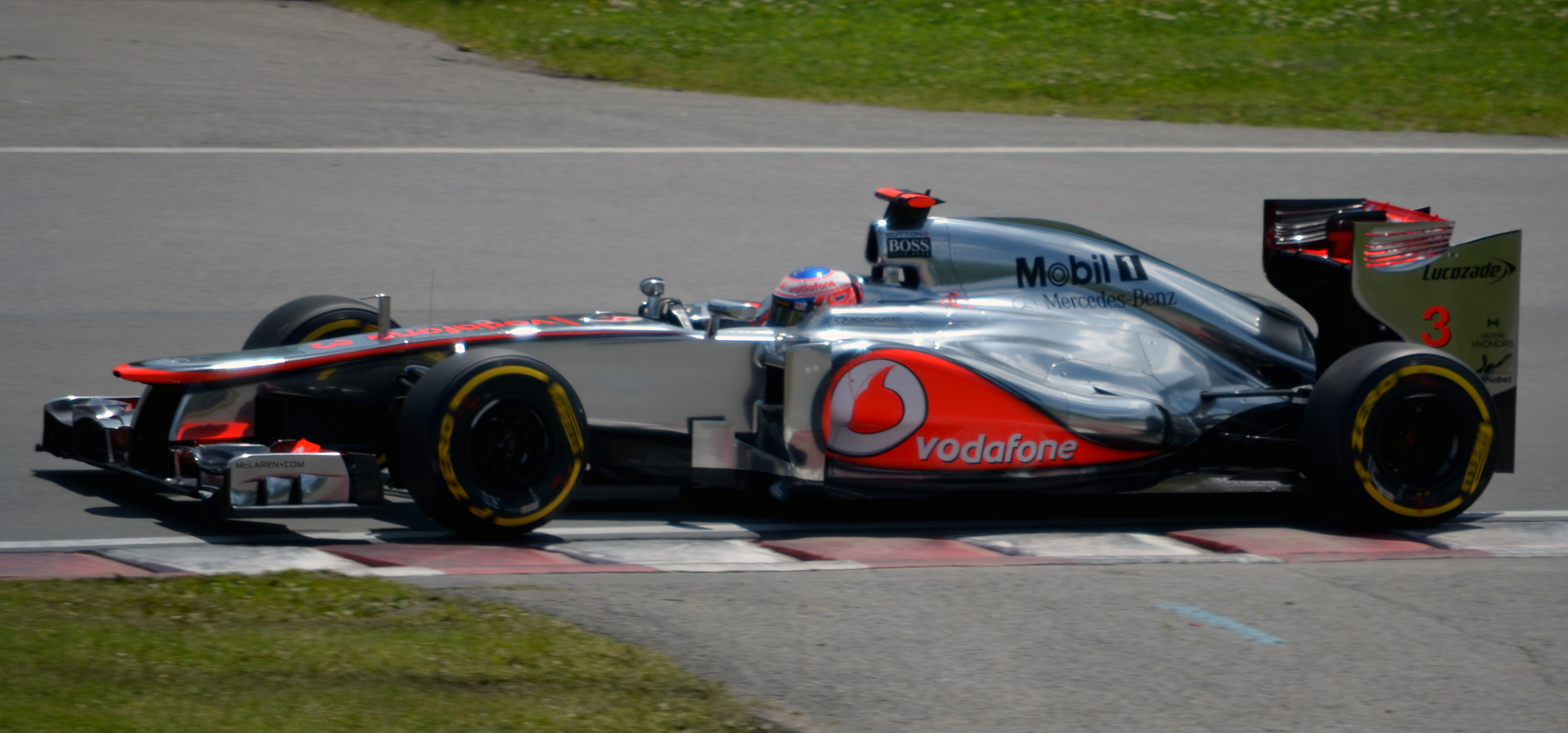 Jenson Button in the McLaren - Mercedes MP4-27 at turn 9 of Circuit Gilles Villeneuve during qualifying for the 2012 Canadian Grand Prix.